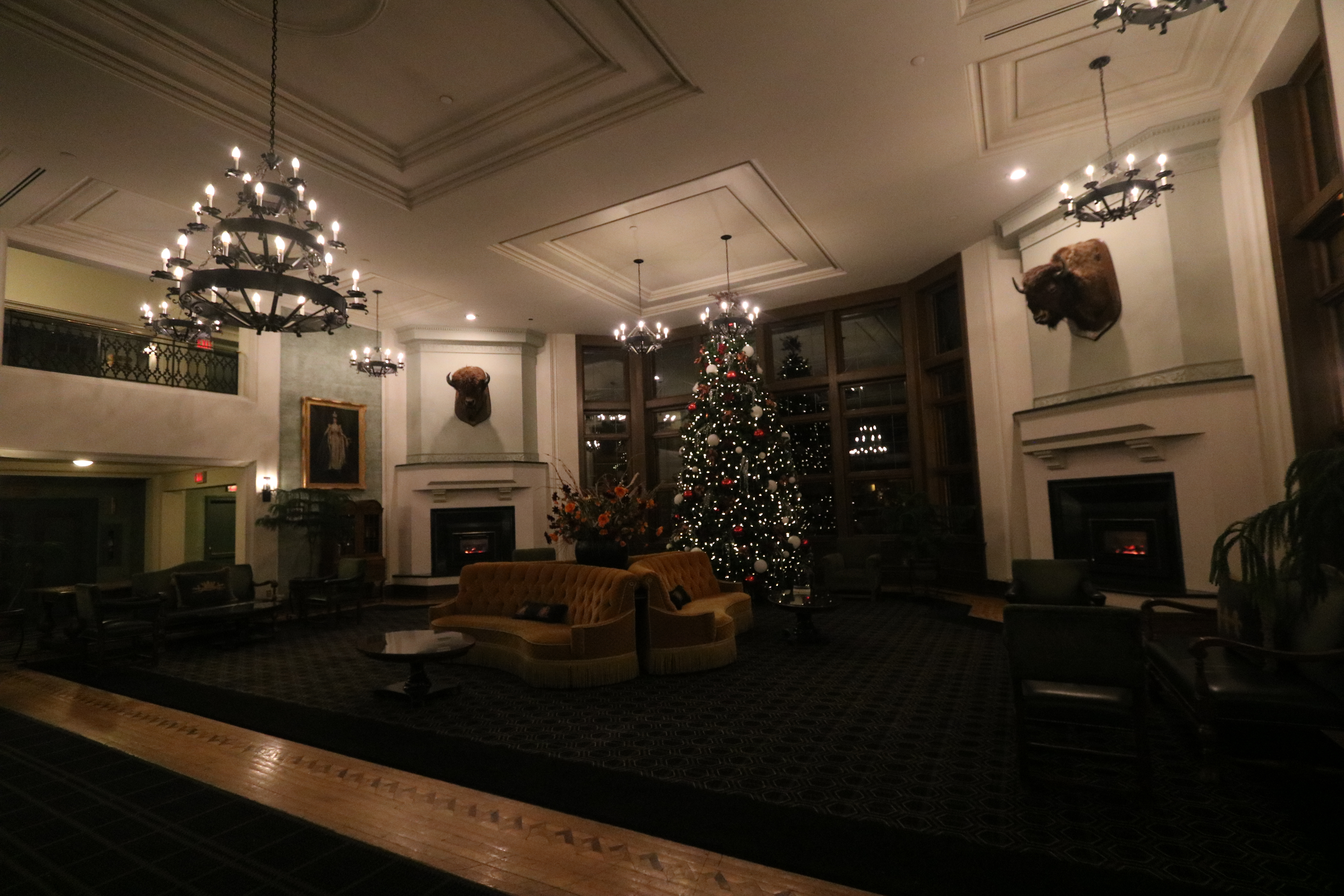 Several views around the hotel a great place for a weekend getaway for sure.